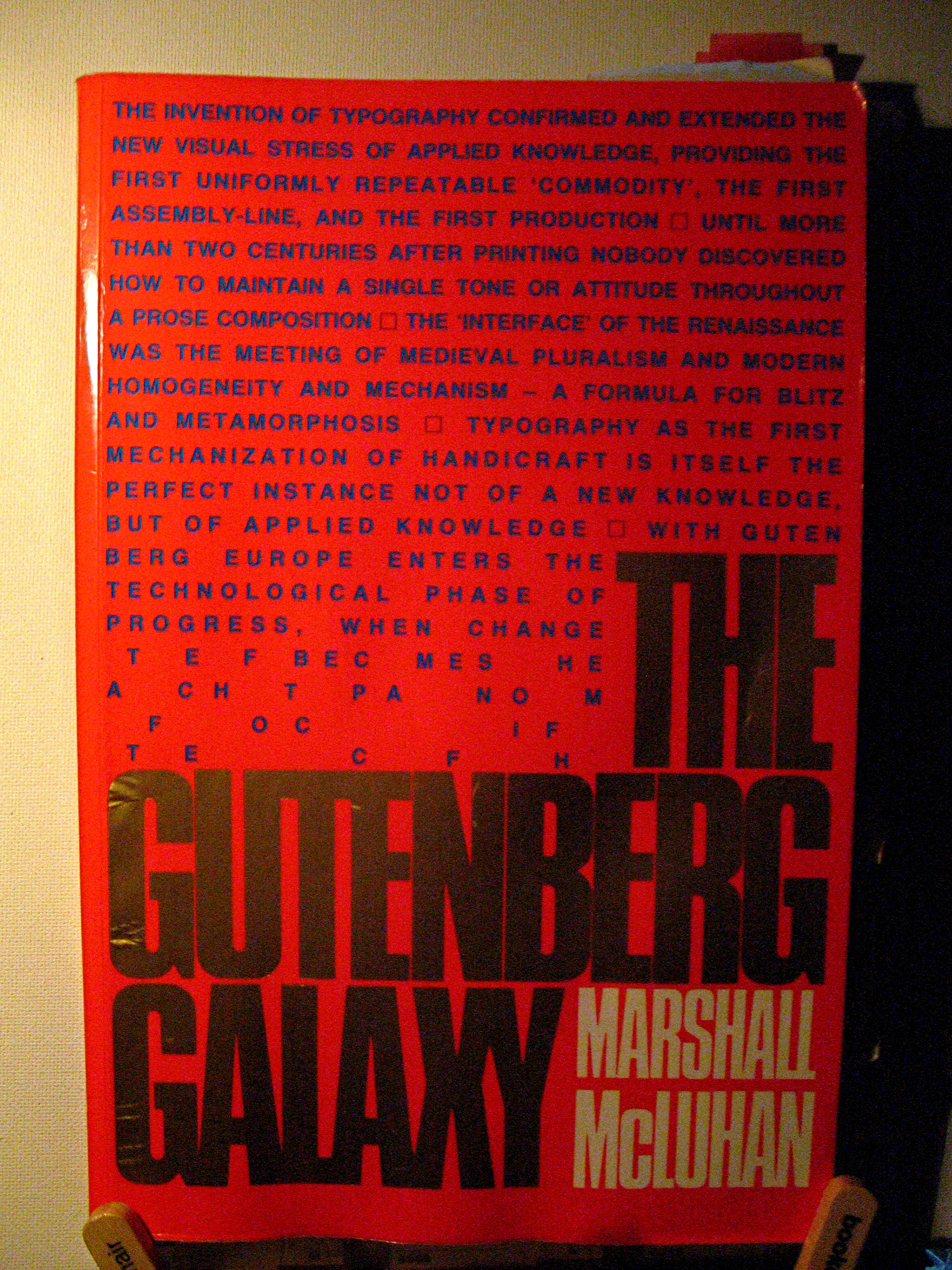 photo of my water-stained copy of the Gutenberg Galaxy on my little bookchair with art canvas background